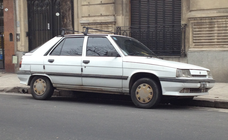 Late Renault 9 photographed in Buenos Aires